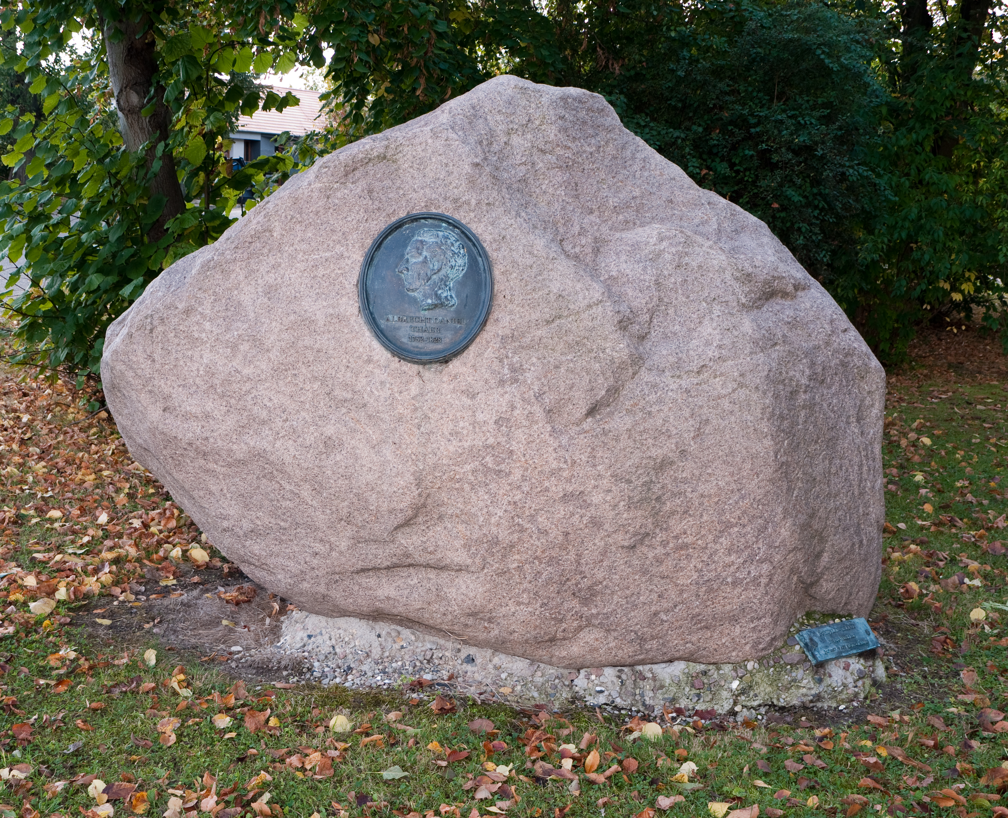 Thaer memorial in Möglin in Brandenburg, Germany